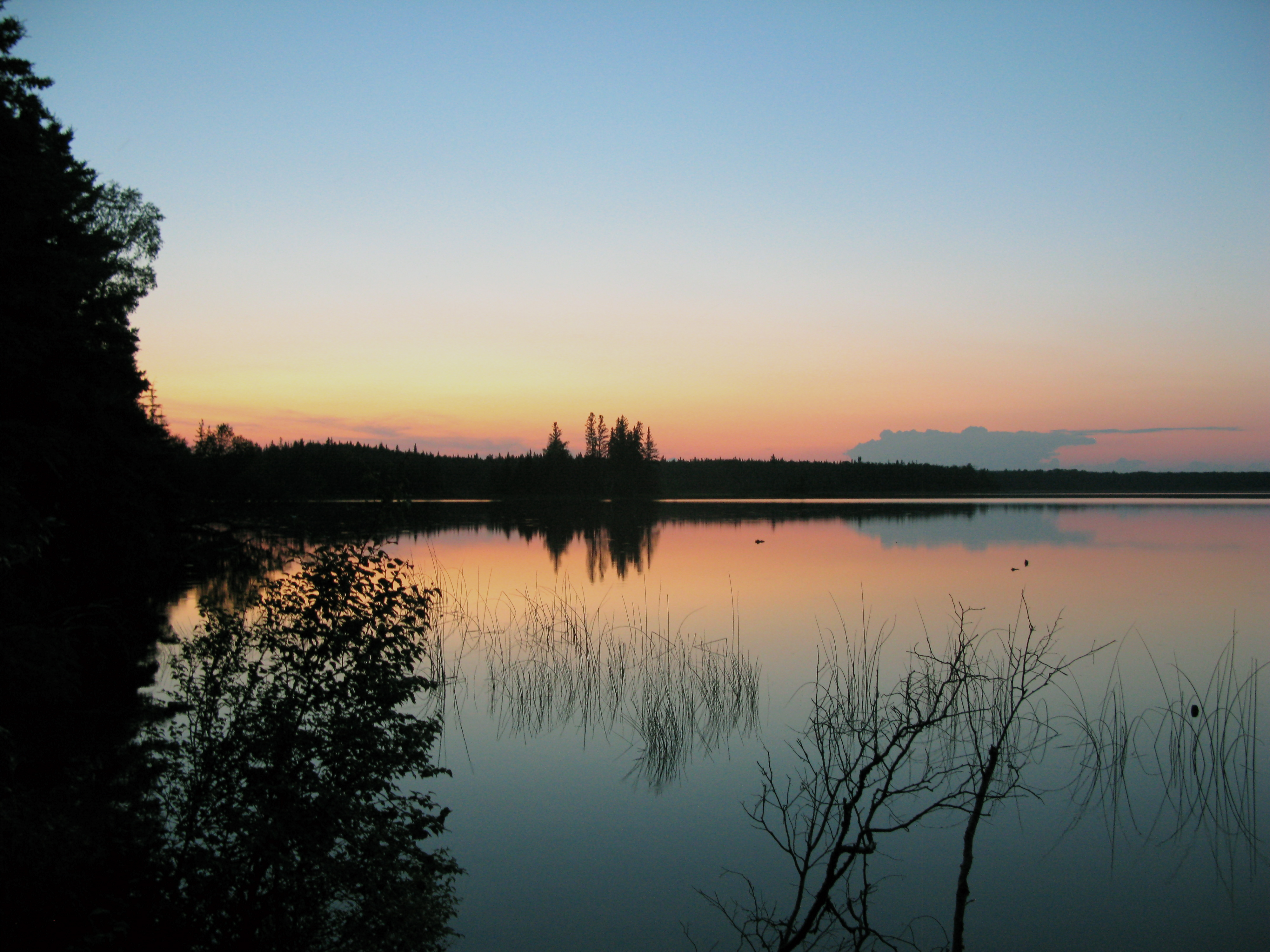 Kinnard Lake, Lakeland Provincial Park, Alberta